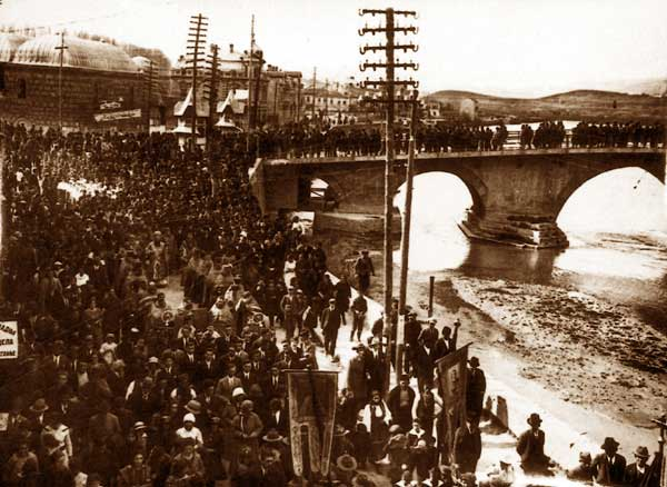 Blessing of Waters (Vodokrst) in Skopje, Macedonia in the 1920's